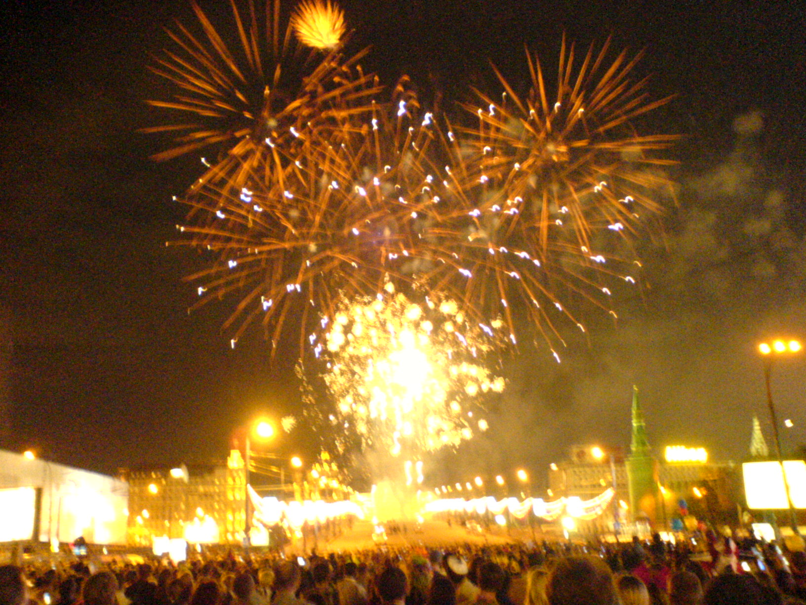 Moscow, Day of the Town 2006 (859-year anniversary), fireworks over the Great Moskvoretski Bridge as seen from the Intercession Cathedral (St. Basil's)